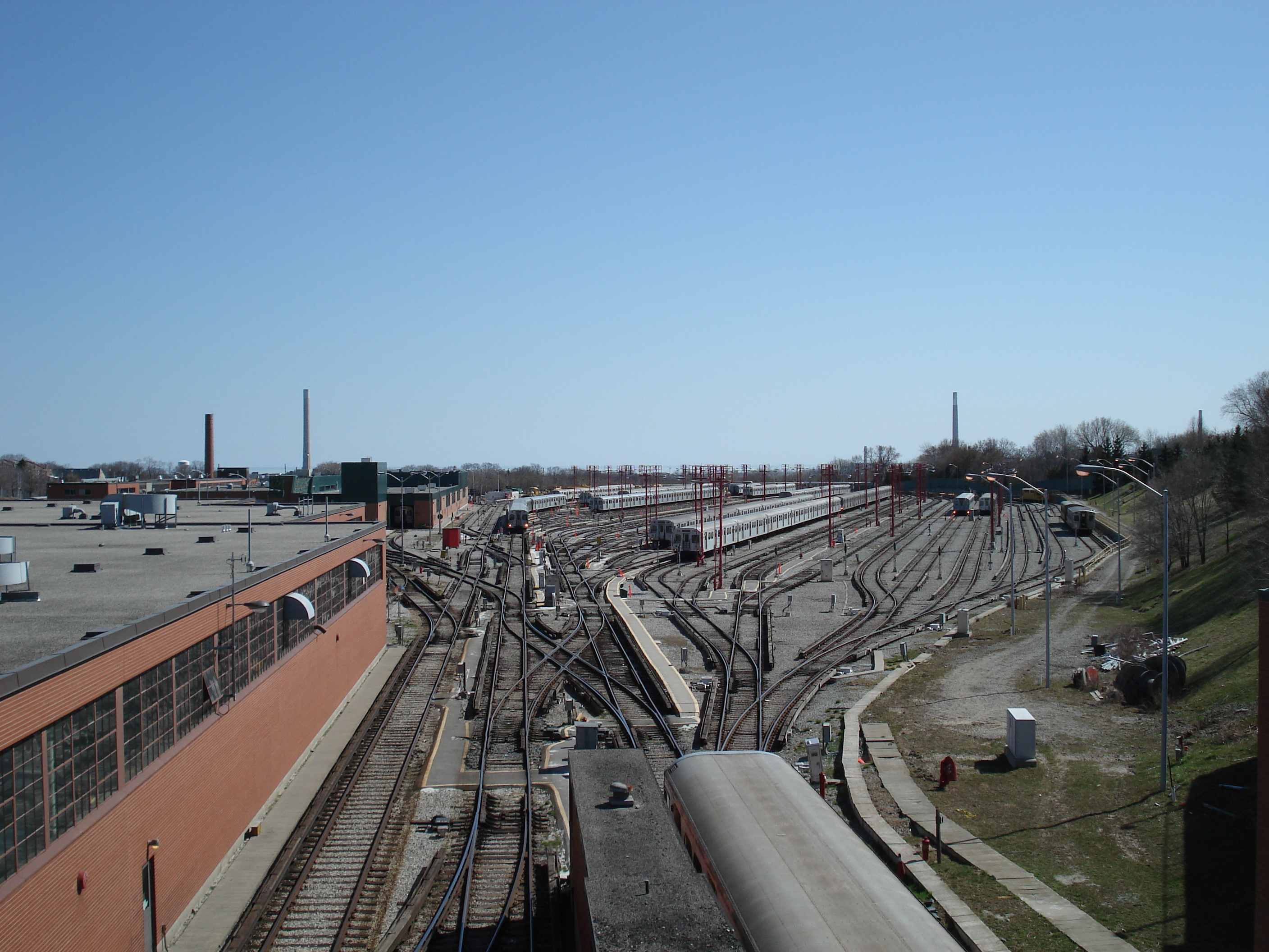 Toronto Transit Commission's Greenwood yard as viewed from above the Greenwood Portal